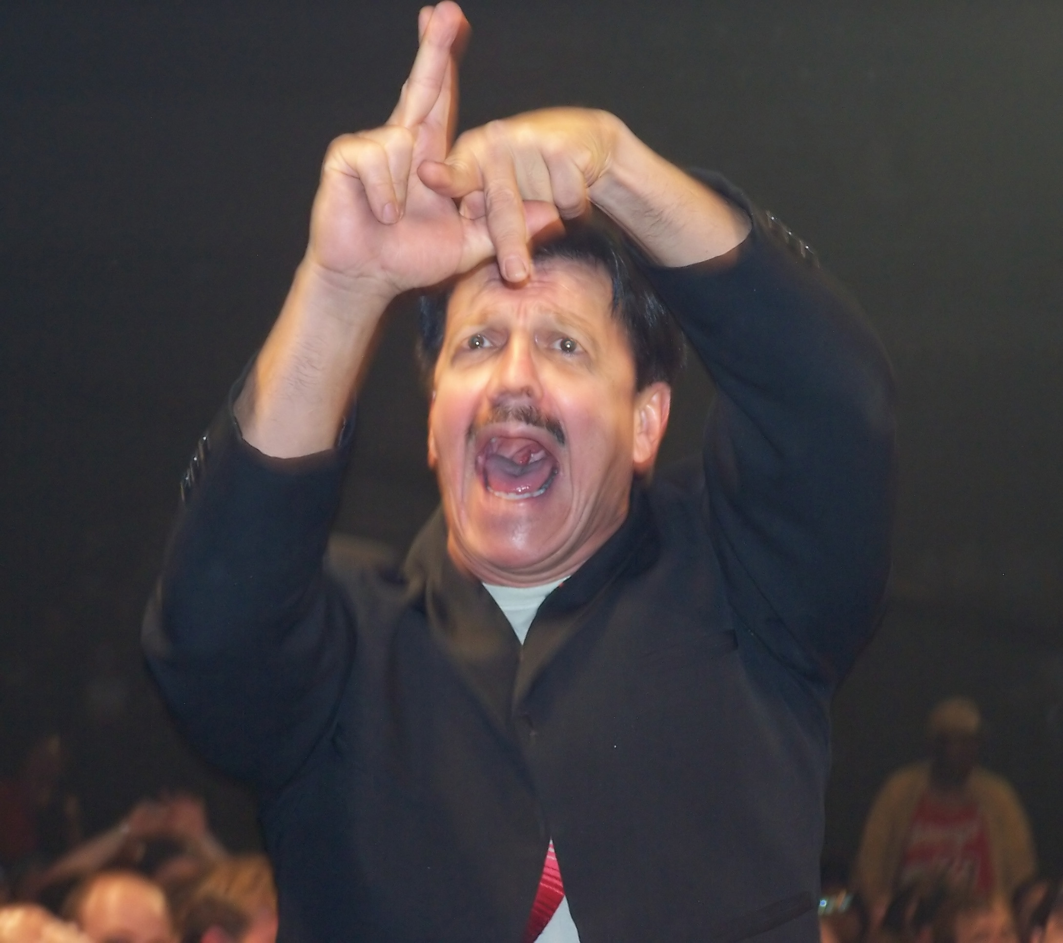 Hector Guerrero at TNA Hard Justice 2008.